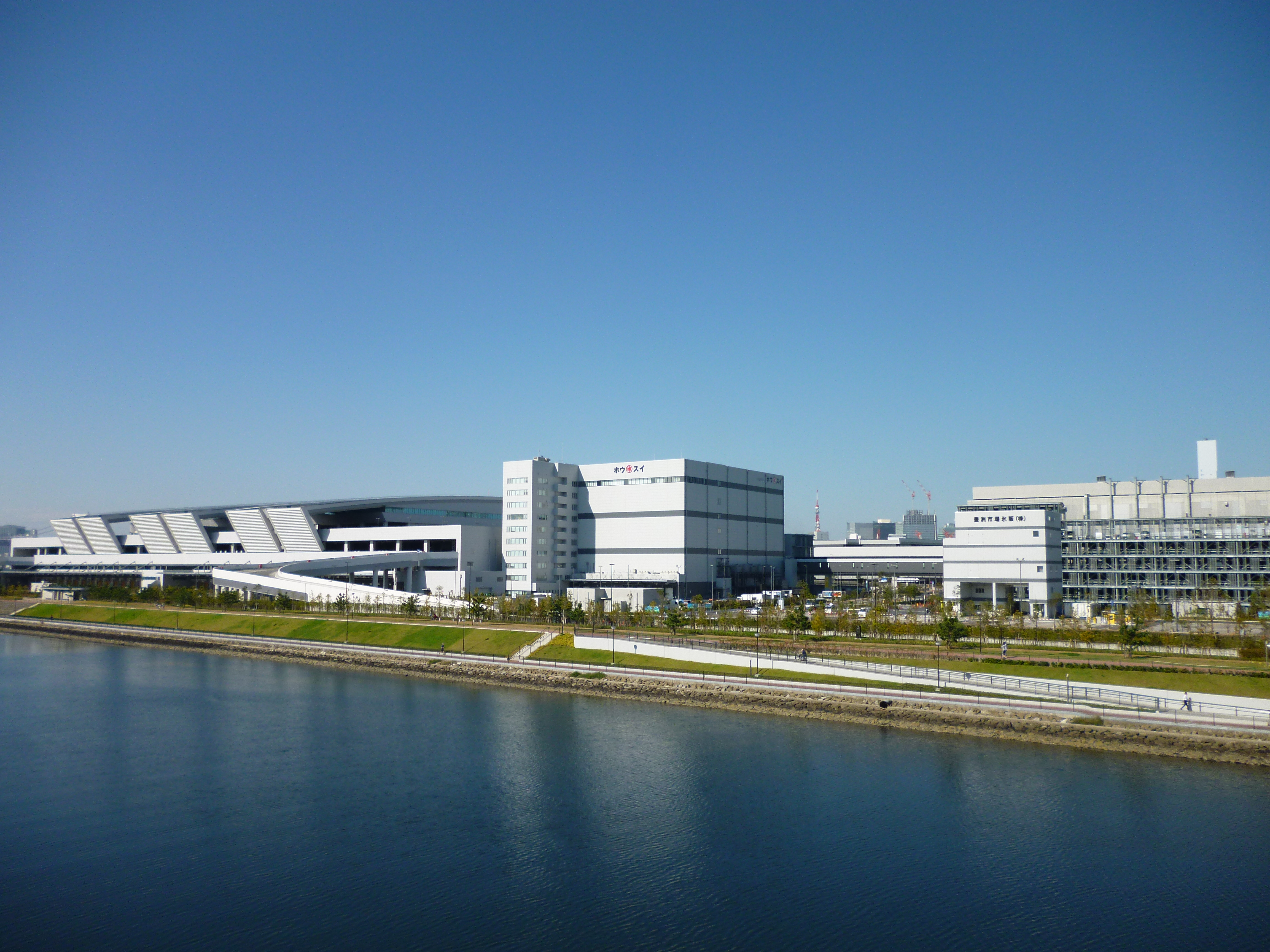 Fish Wholesale Market Building of Toyosu Market in Toyosu, Kōtō, Tokyo, Japan. A view from Ariake-Kita Bridge.